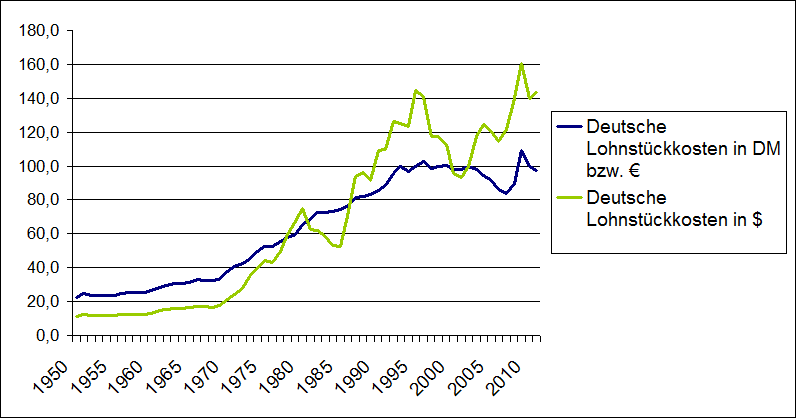 German unit labor costs in national currency and $. 1950-2011.